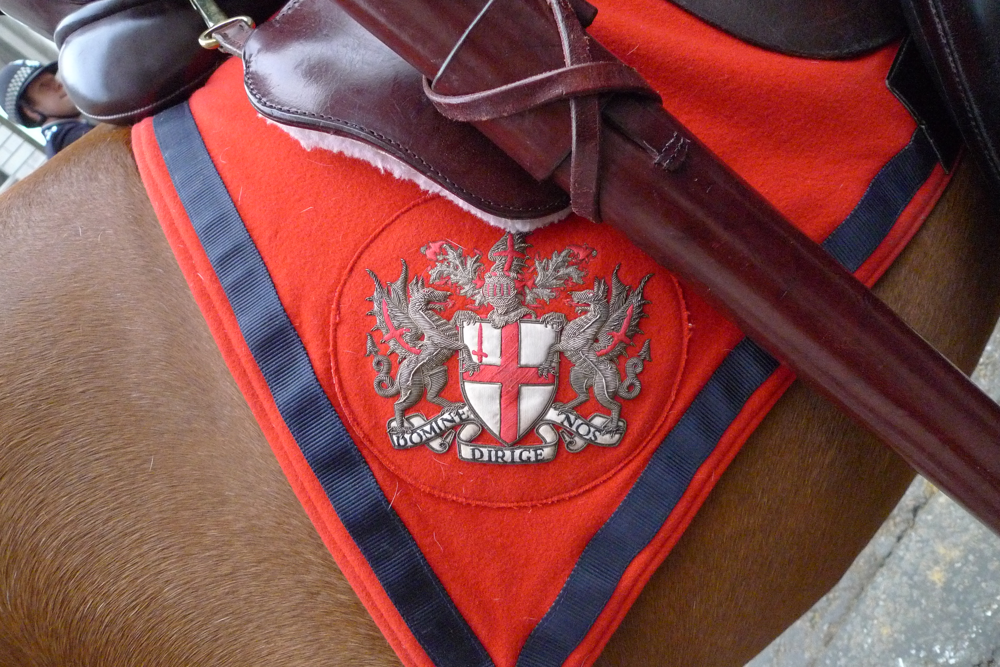 photo taken during Lord mayor's Show November 2011 by Rodolph de Salis.User:RodolphRodolph (User talk:Rodolphtalk) 00:05, 18 November 2011 (UTC) Summary photo taken during Lord mayor's Show November 2011 by Rodolph de Salis.Rodolph (talk) 00:05, 18 November 2011 (UTC)